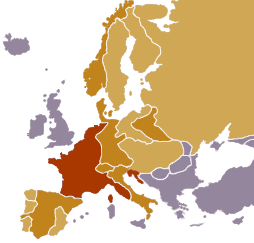 French empire in 1811